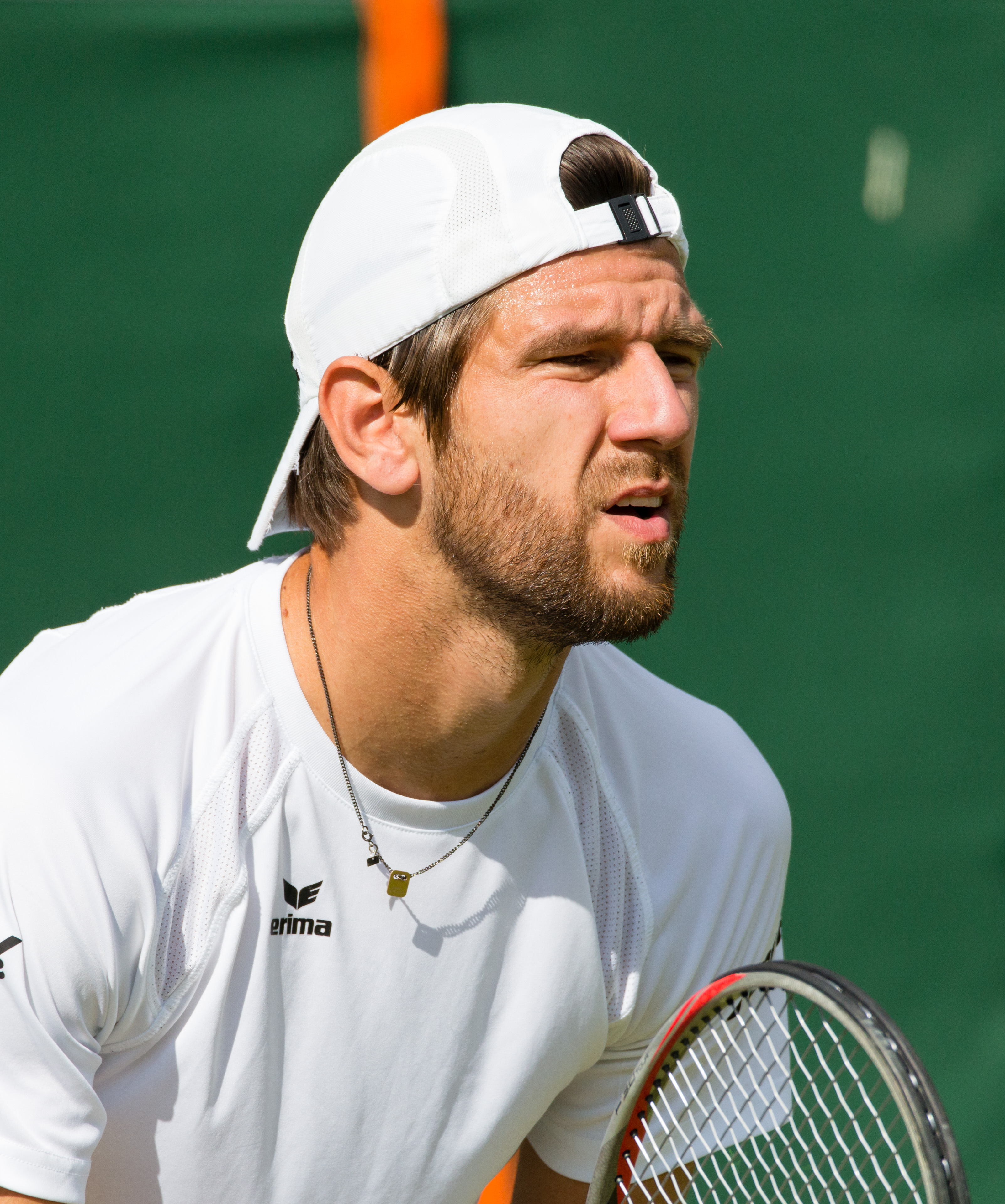 Jürgen Melzer competing in the first round of the 2015 Wimbledon Qualifying Tournament at the Bank of England Sports Grounds in Roehampton, England. The winners of three rounds of competition qualify for the main draw of Wimbledon the following week.